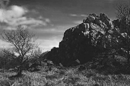 Beacon Hill. The popular "highest hill" in Leicestershire, it is actually out topped by Bardon Hill, but the lack of quarrying and easy access makes Beacon Hill a favourite, and it is often erroneously given the title in print. The summit is a series of hornstone crags, probably the slipperiest, most easily polished stone ever climbed upon. The surrounding country park is a welcome and expanding island in the keepout sign infested Charnwood Forest. I used to be lucky to live within running distance of here.